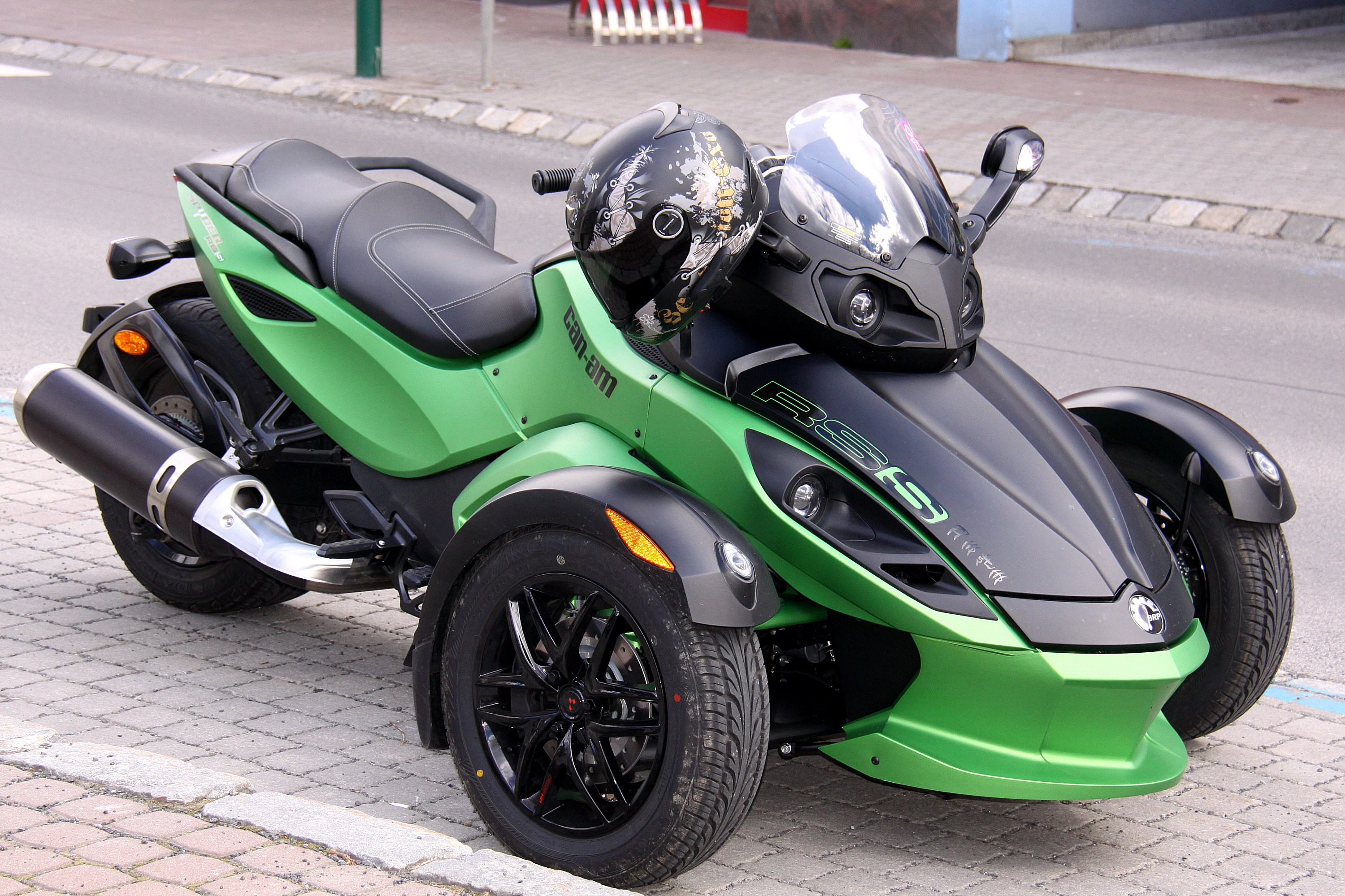 Can-Am Spyder RSS, model 2013